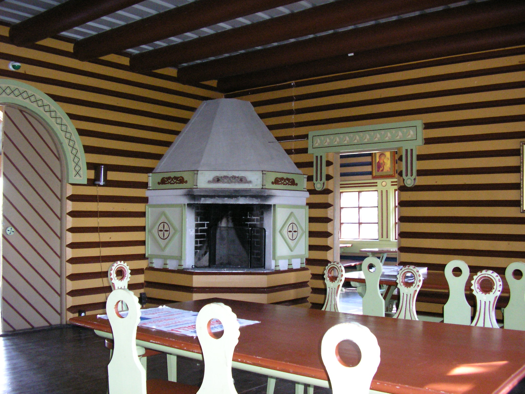 Aavasaksa,Keisarintupa